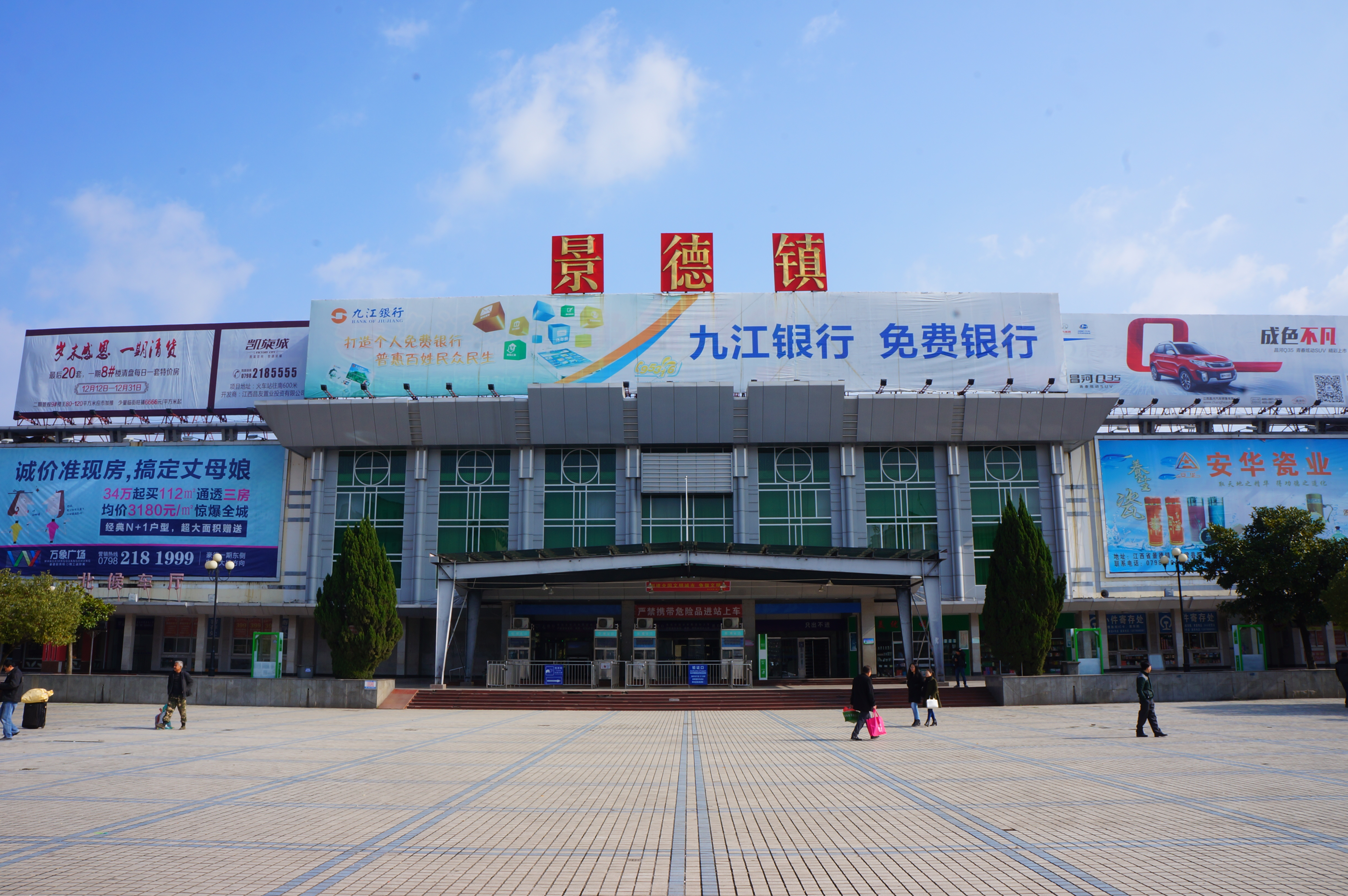 201612 Jingdezhen Railway Station. A replication of Yingtan Station?